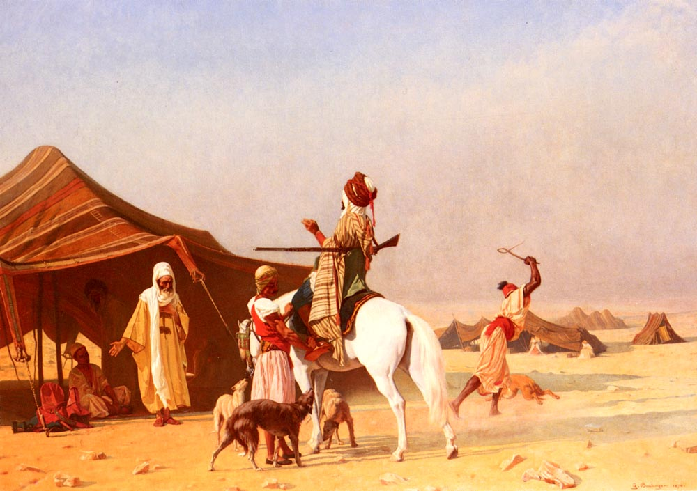 Painting entitled "C'est Un Emir" oil on canvasmedium QS:P186,Q296955;P186,Q12321255,P518,Q861259, Height: 71 cm (27.9 ″); Width: 104 cm (40.9 ″) dimensions QS:P2048,71U174728;P2049,104U174728